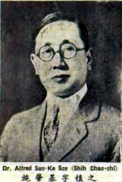 Alfred Sao-ke Sze(1877-1958)